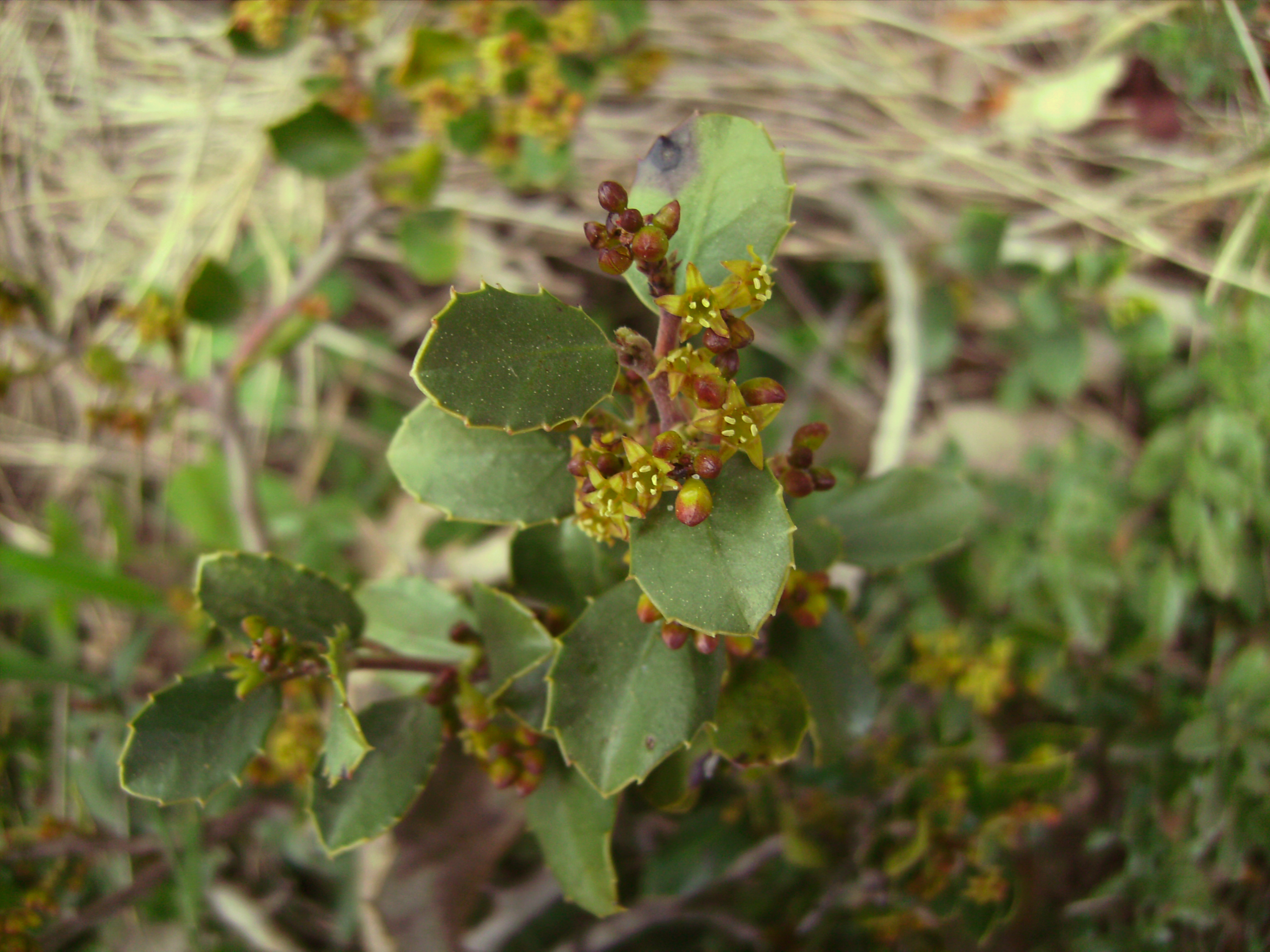 Rhamnus alaternus (aladern) male flowers,Castelltallat (Catalonia)